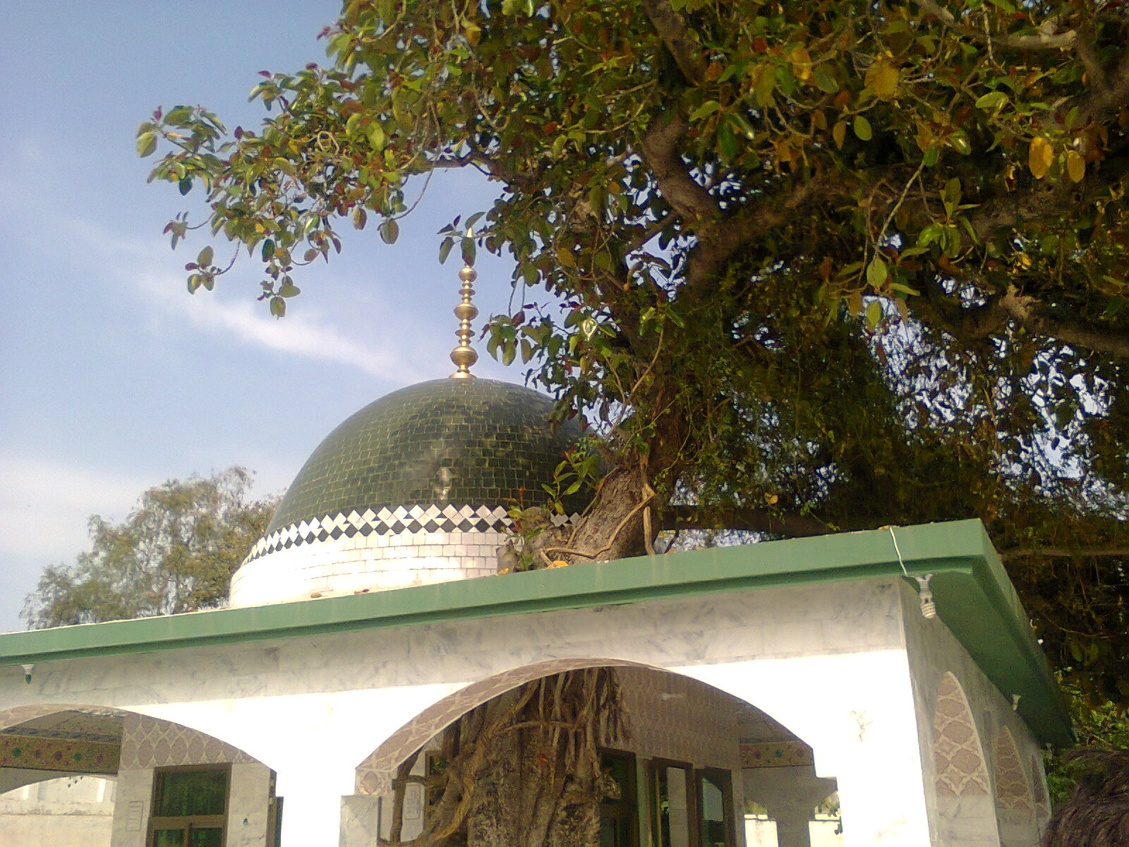 "Baba Shadi Shaeed" is for Marriage. People make prayer in this tomb for merriage. This is a photo of a monument in Pakistan identified as the AJK-6